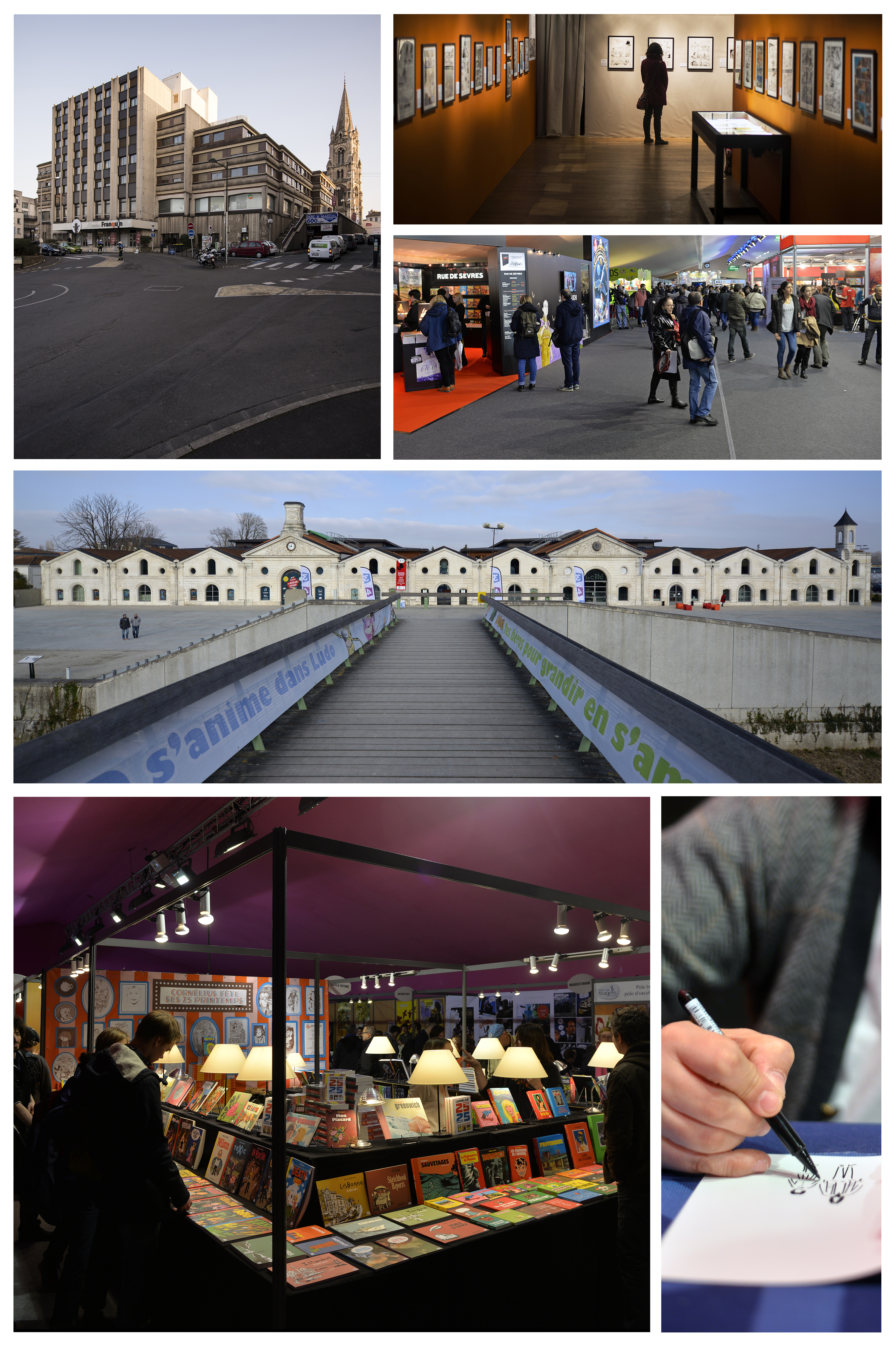 Pictures of Angoulême International Comics Festival.